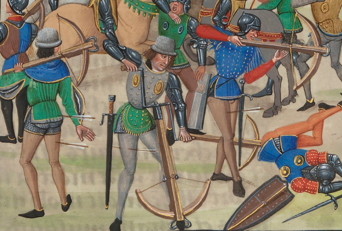 Battle of Crécy part of manuscript showing genoese crossbowmen. From a 15th-century illuminated manuscript of Jean Froissart's Chronicles (BNF, FR 2643, fol. 165v).